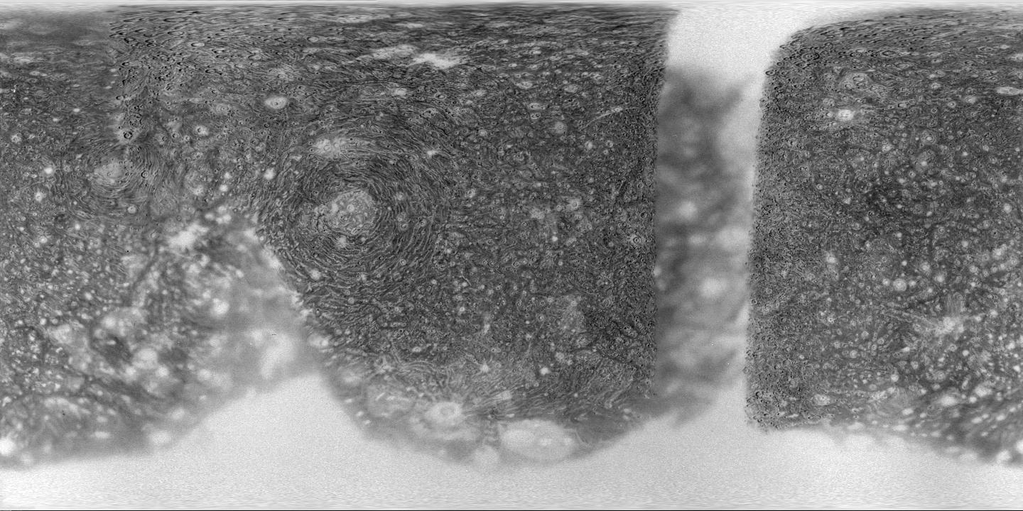 Cleaned up version of the Voyager mosaic. Resolution 4 pixels per degree